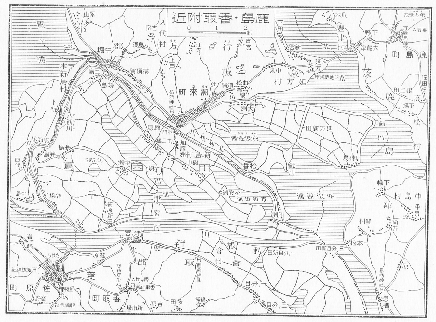 Suigo map circa 1930